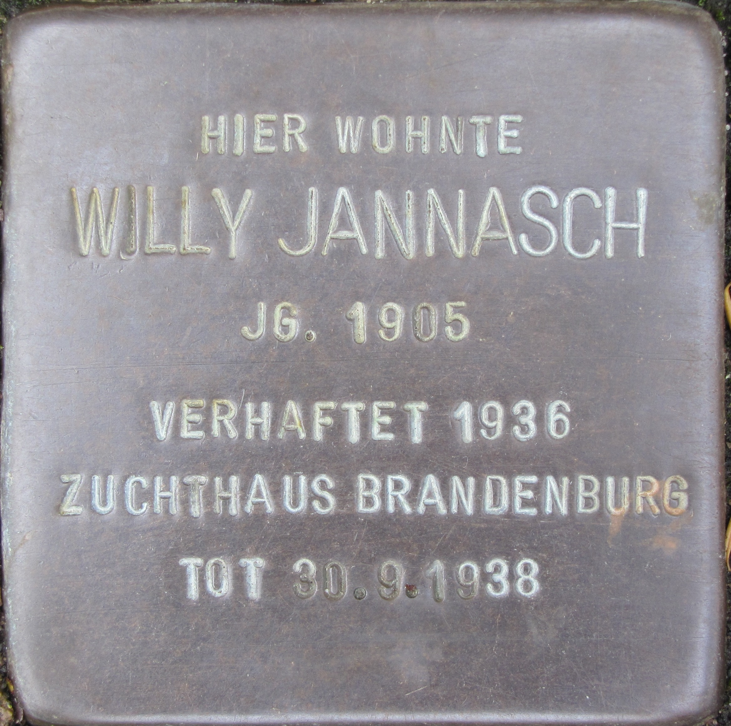 Stolperstein of Willy Jannasch in Cottbus, Gartenstraße 73